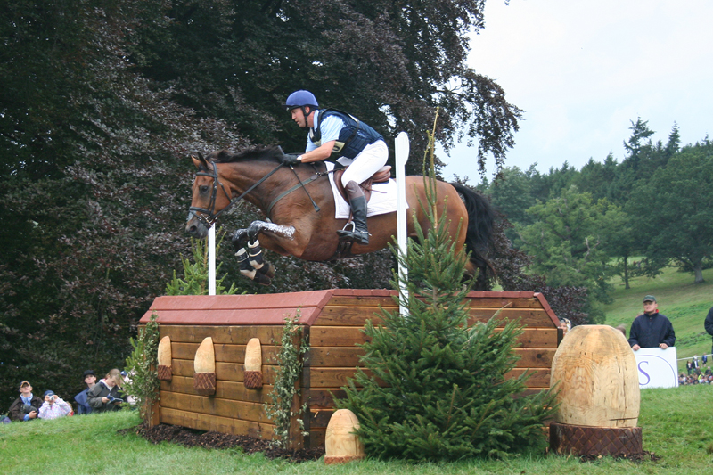 Jonathan Chapman competing at Blenheim in September 2006